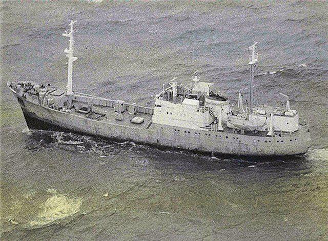 Here is a photo of the AGI Kursograph, the Soviet intelligence collector that was tailing Blue Ridge's Philippine exercise Pagsa II in October of 1973 and also collected one of BR's ensign's that went unnoted over the side in the early morning hours. Here's a link about that incident from the ship's history report for that year